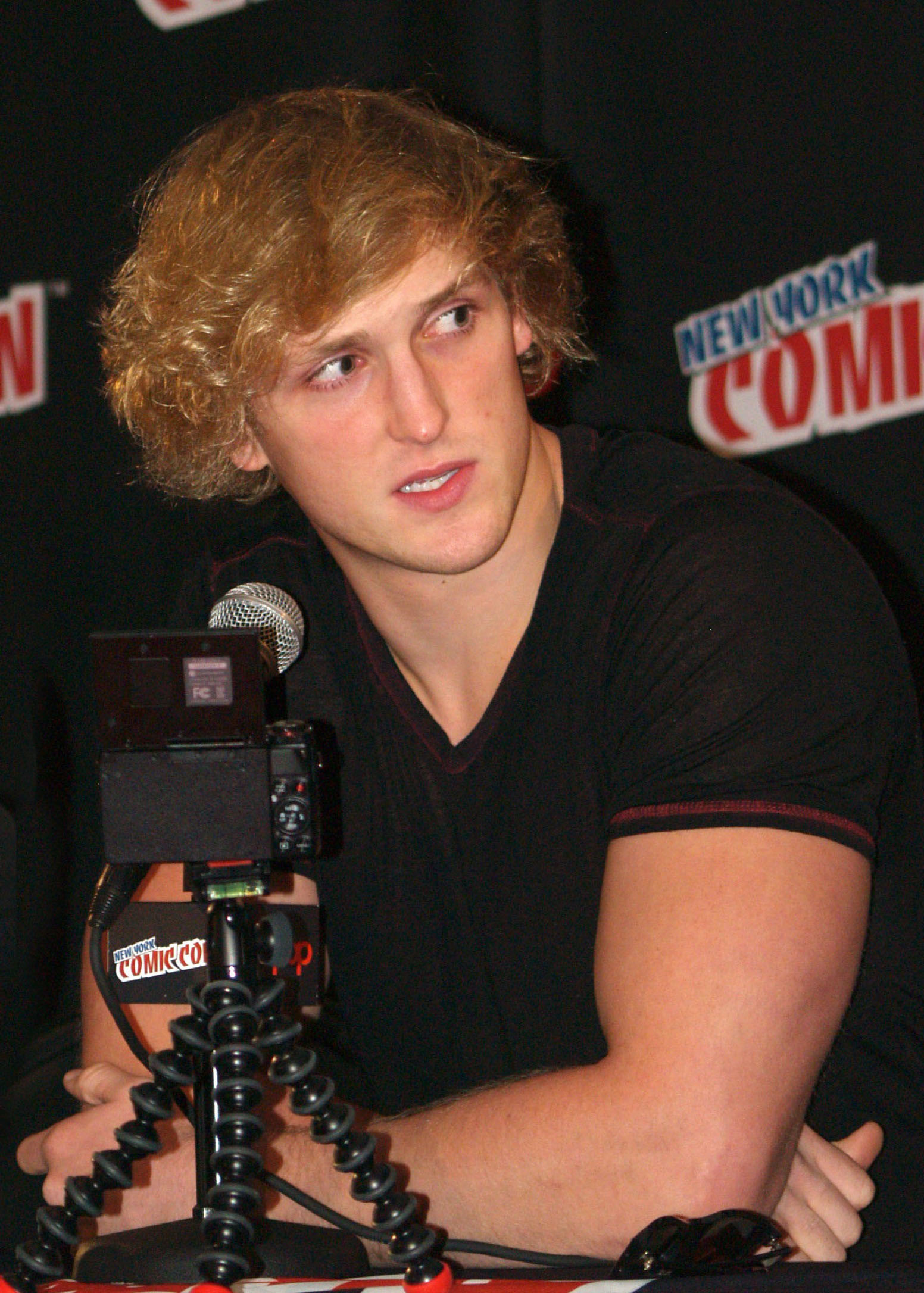 Actor Logan Paul at a panel discussion devoted to his 2016 film The Thinning at the Jacob K. Javits Convention Center in Manhattan, on Saturday October 8, 2016, Day 3 of the 2016 New York Comic Con.